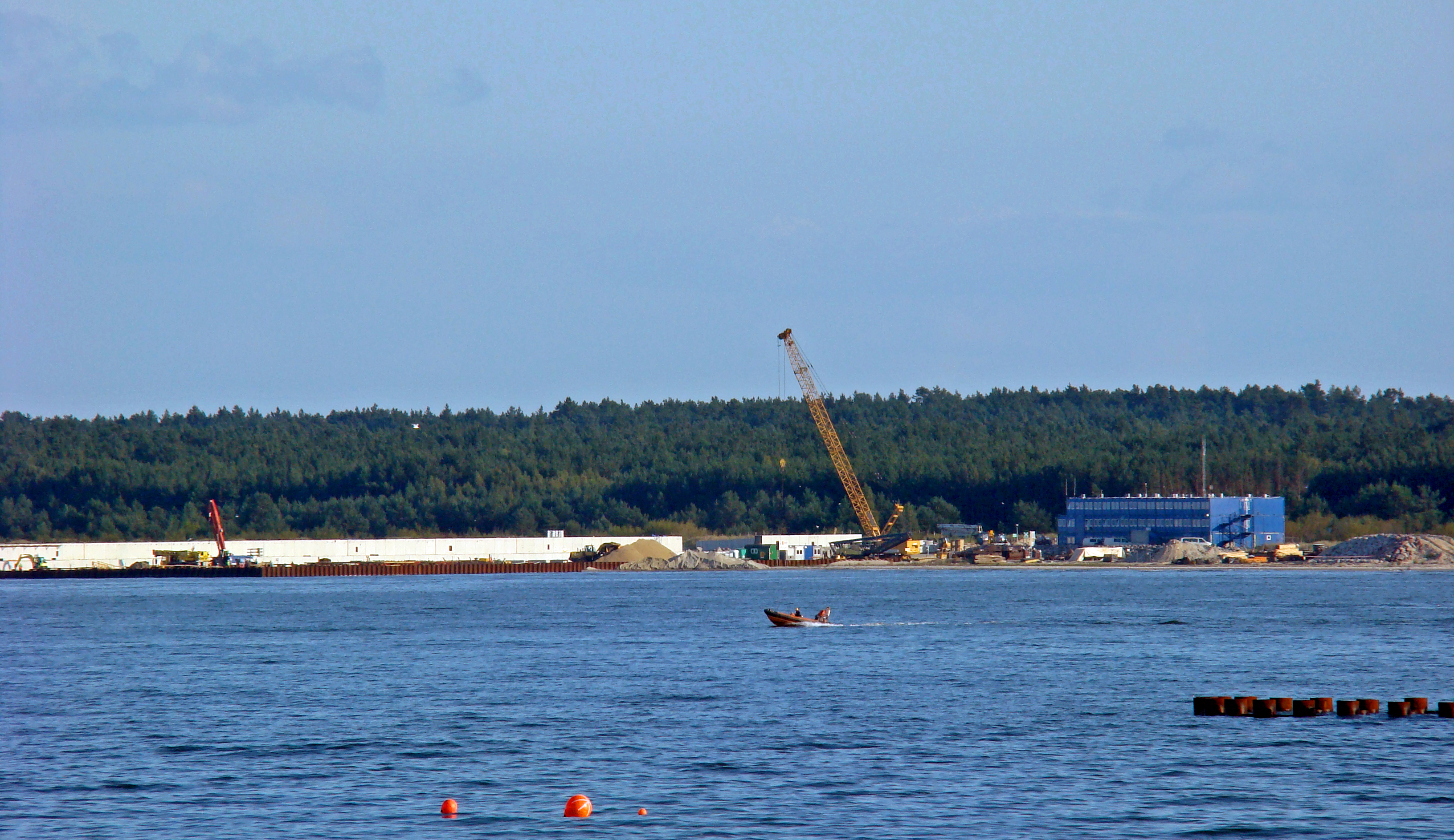 LNG terminal in Świnoujście, Poland